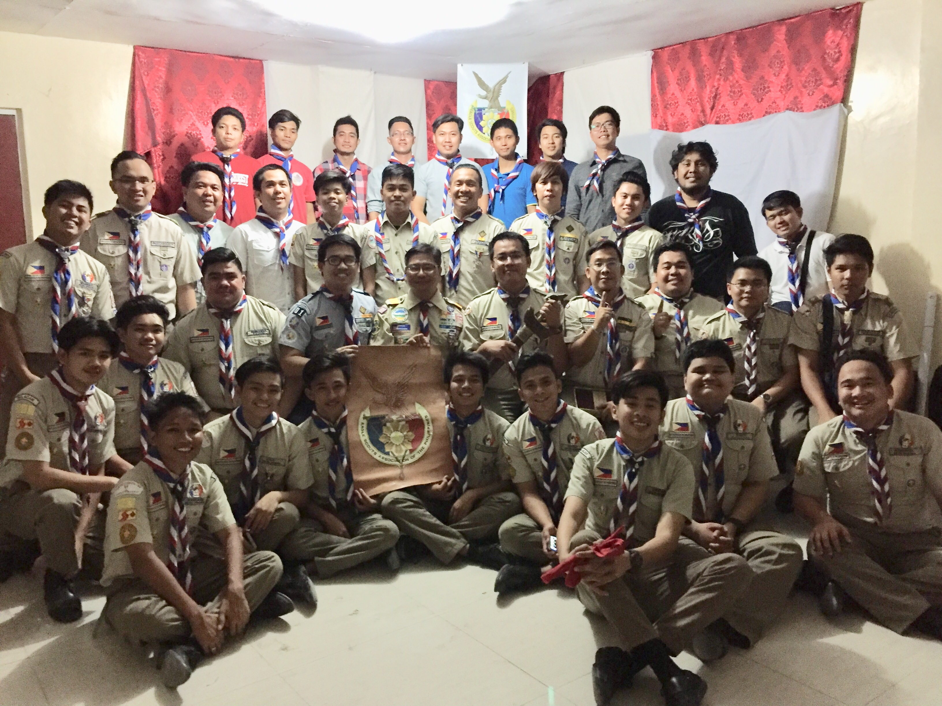 NESAPh 1st Acceptance Rites